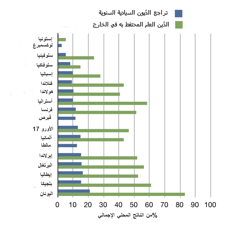 Debt profile of Eurozone countries, showing annual sovereing debt roll-over and public debt held abroad in % of GDP Data seems to be position at end of 2010.